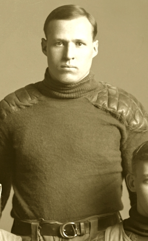 Photograph of Joe Curtis